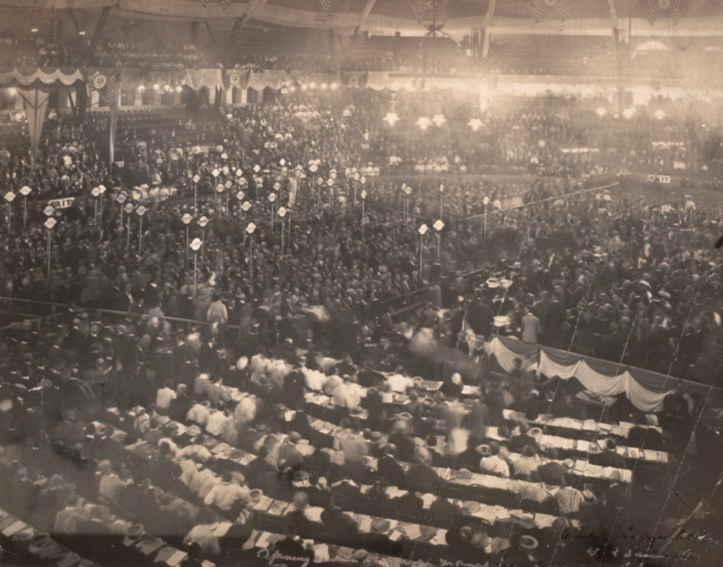 1904 DNC